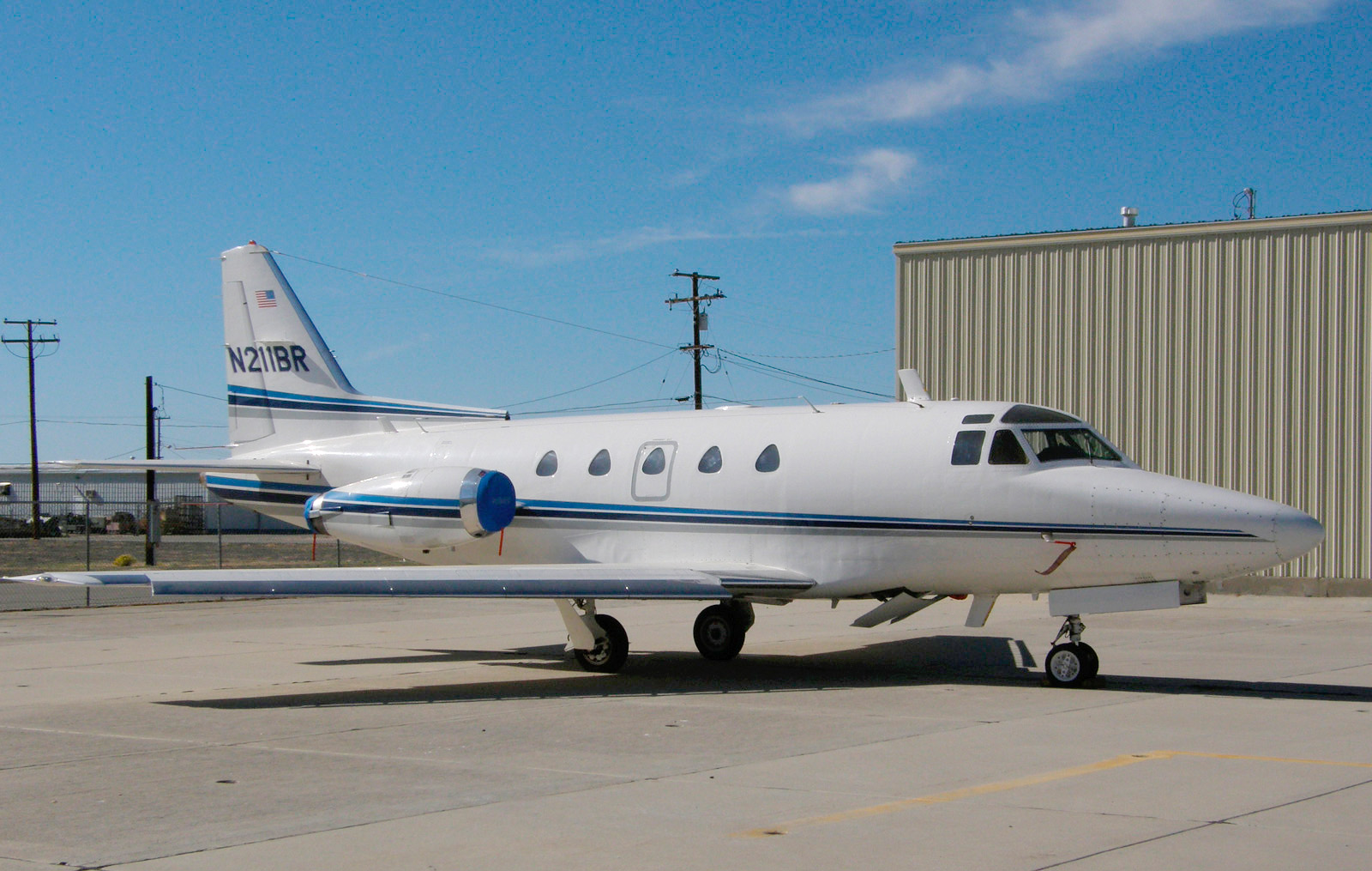 North American Sabreliner NA-265-60 at the National Test Pilot School, Mojave